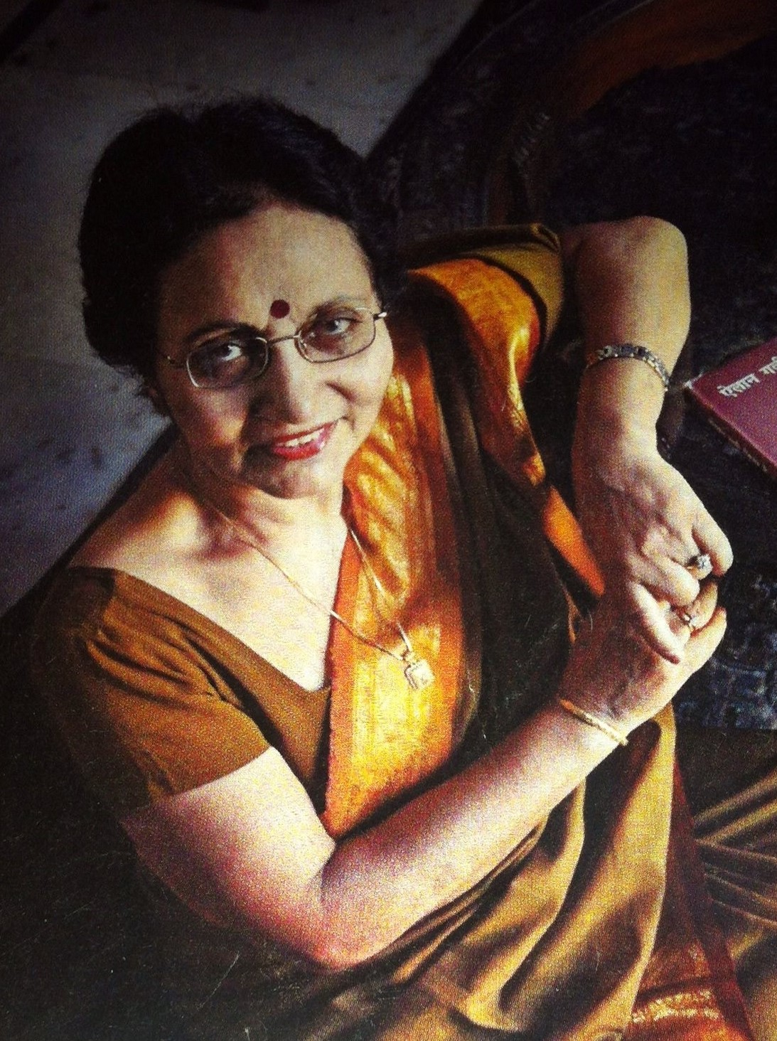 A more recent picture of the Author